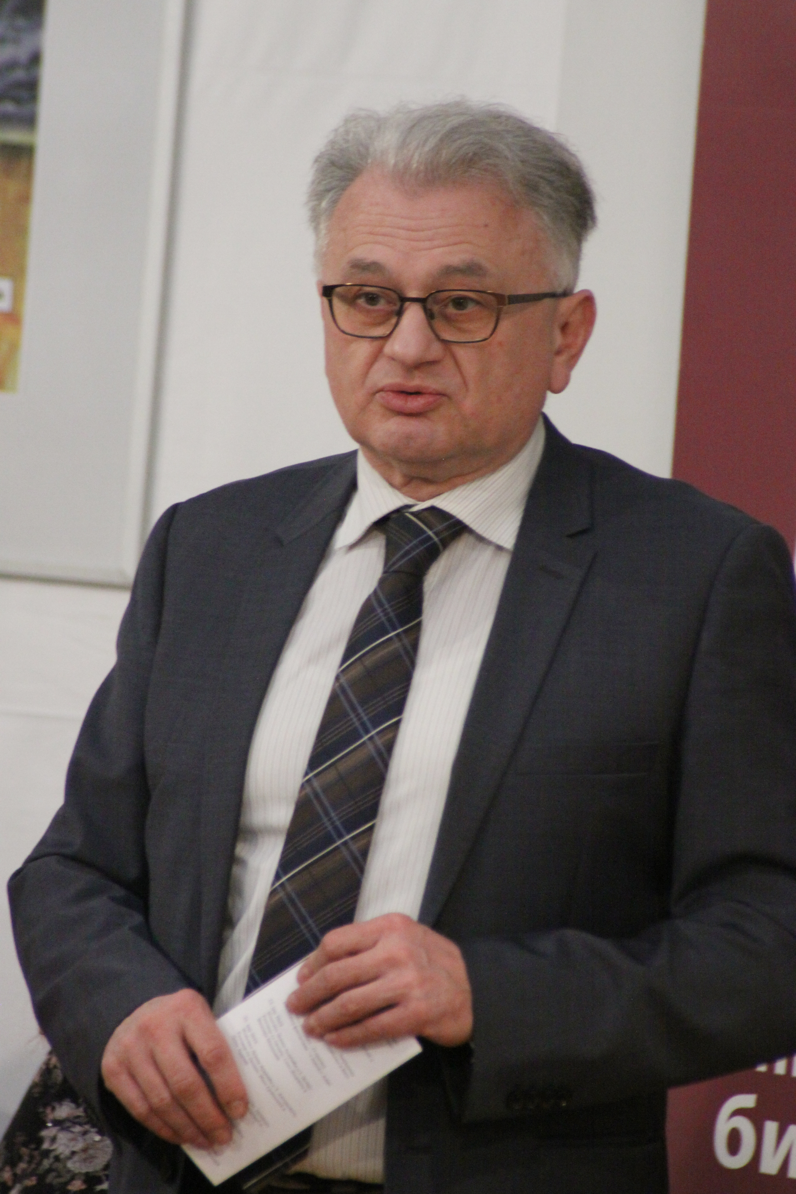 Slavic and Serbian fantasy cycle, University library, Belgrade, Serbia, Aleksandar Jerkov, professor at Faculty of Filology University of Belgrade. Srpski (latinica): Ciklus "Slovenska i srpska fantastika", Univerzitetska biblioteka, Beograd, Srbija, Aleksandar Jerkov, profesor Filološkog fakulteta Univerziteta u Beogradu